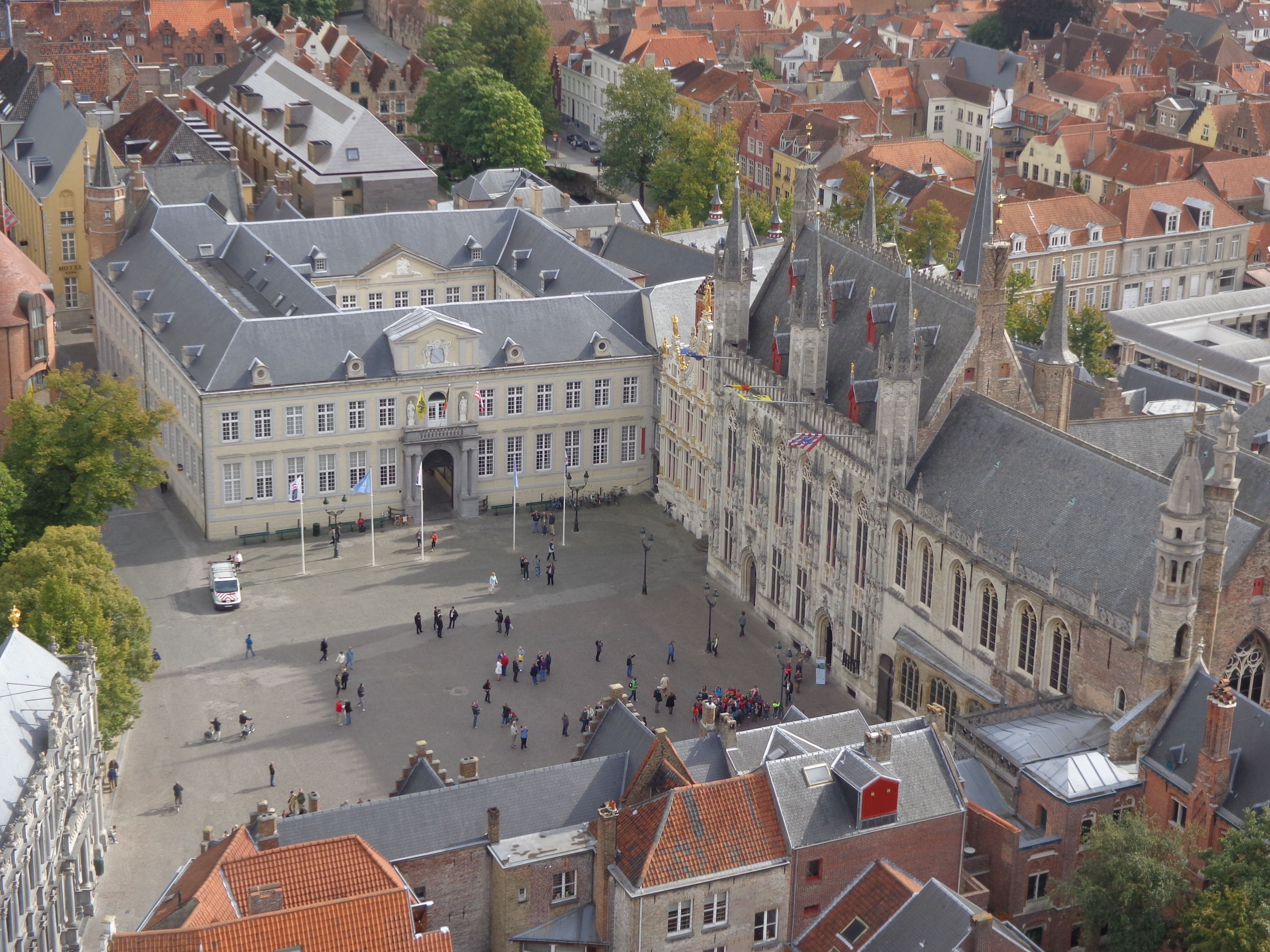 Burg (Brugge)